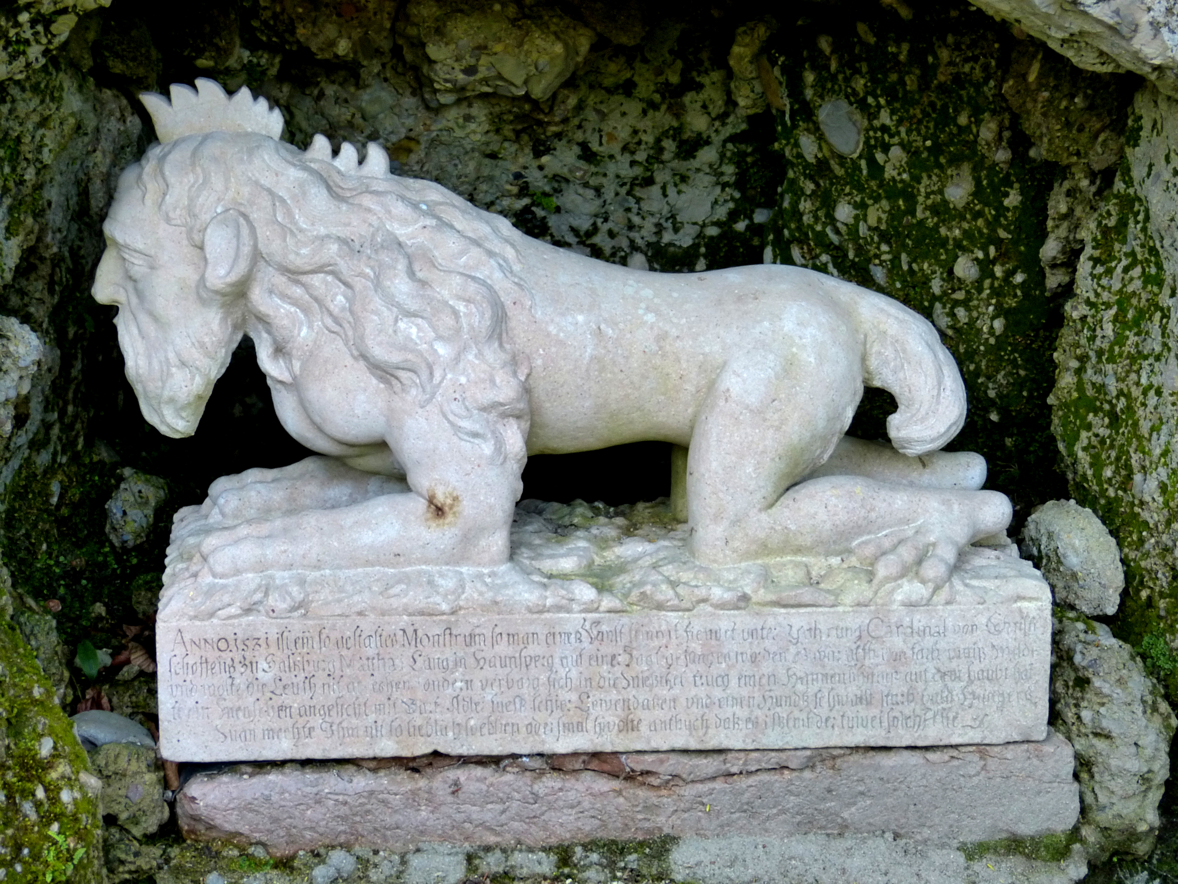 Salzburg ( Austria ). Hellbrunn palace gardens: Sculpture ( 1613-15 ) of a wild man caught in Haunsberg forest in 1531.